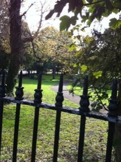 View of the park in Mount Pleasant Square, Dublin